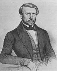 Hermann Nordlinger (1818-1897)